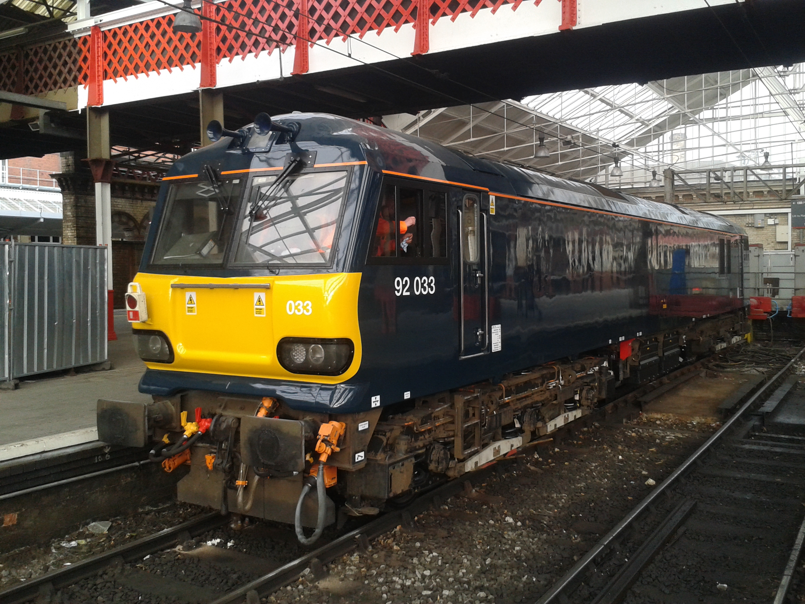 Caledonian Blue 92033 at Crewe Railway Station, having being moved from Brush Traction to Crewe Railway Station for testing.